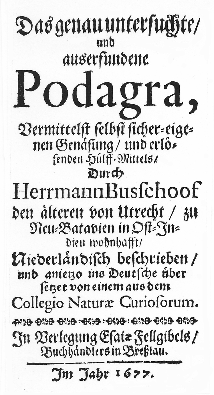 title page of Hermann Buschoff's book on Podagra and its cure with Moxa